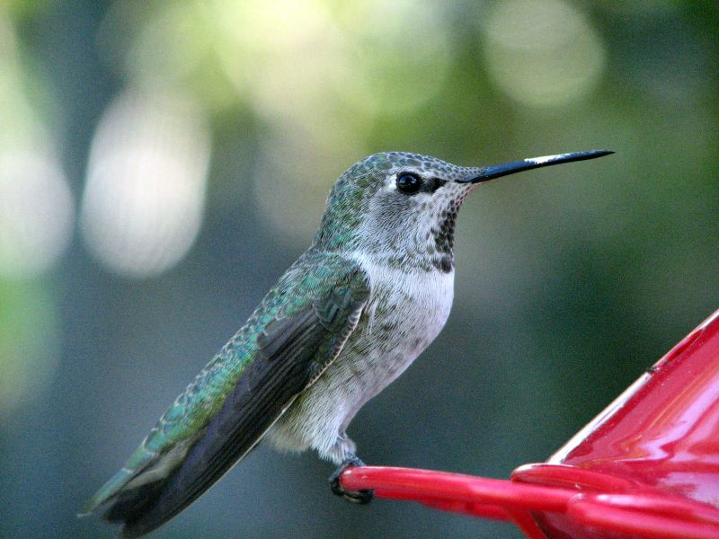 Female Calypte anna